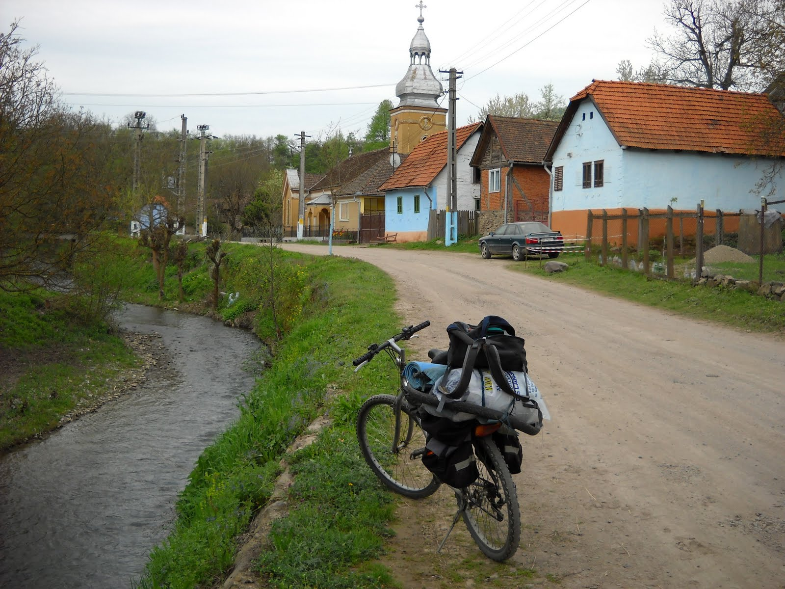 Păiușeni village, Arad County, Romania